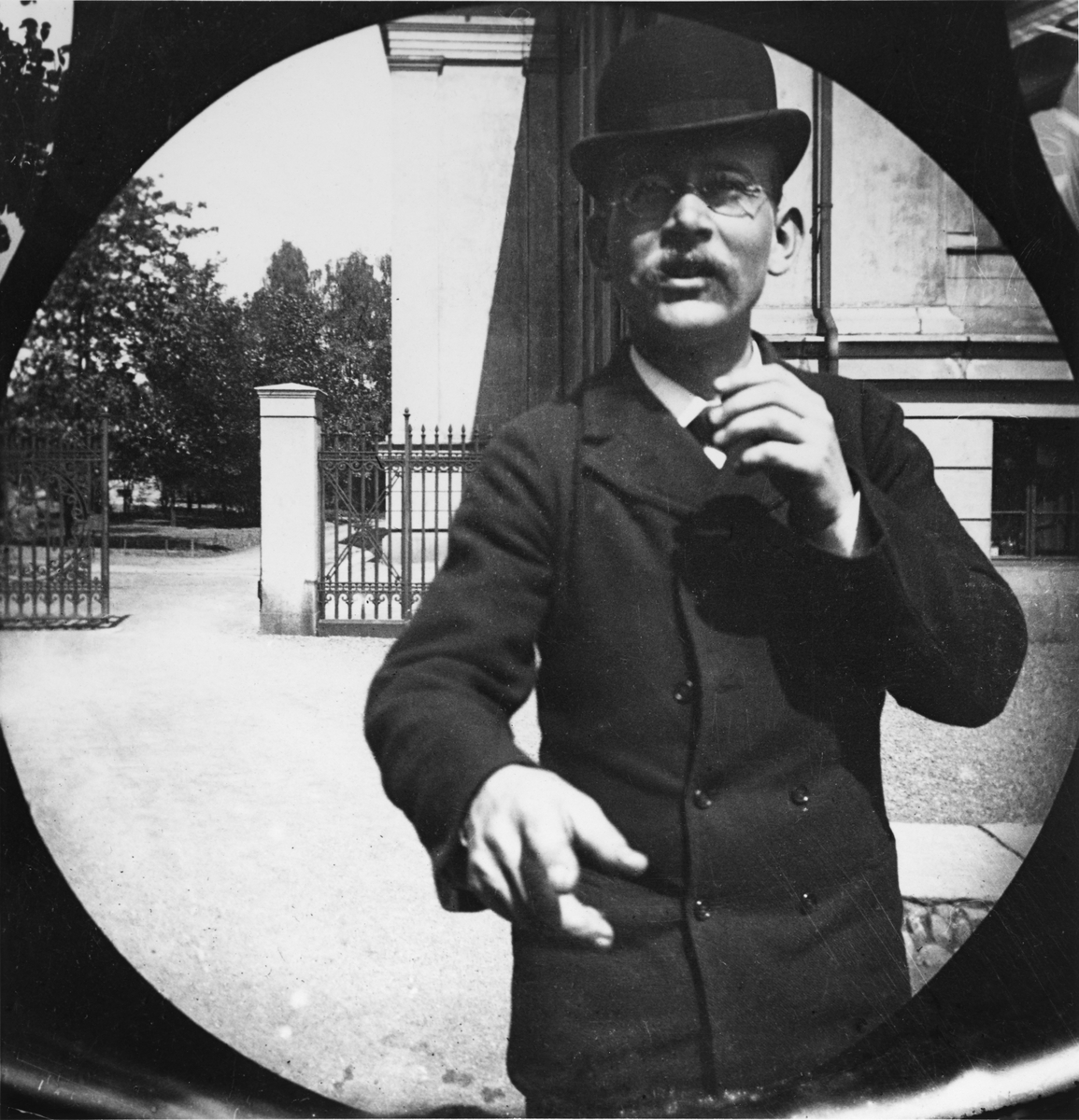 Professor Kristian Birkeland photographed with a spy camera outside the university, Kristiania (Oslo), Norway. Ca. 1895. Fredrik Carl Mülertz Størmer (1874-1957) was a mathematician and northern light scientist. He became cand. Real. in 1898. From 1903 he was Professor of Mathematics at the University of Oslo, a business he maintained until 1946. As a student, in 1893 he received a detective camera that could be hidden under the west with the lens out through a buttonhole and with a cord in a pants pocket. He photographed people he met at Karl Johan and other places in the Kristiania of the 1890s. Byhistorisk samling. Inventarnr. OB.F04143a